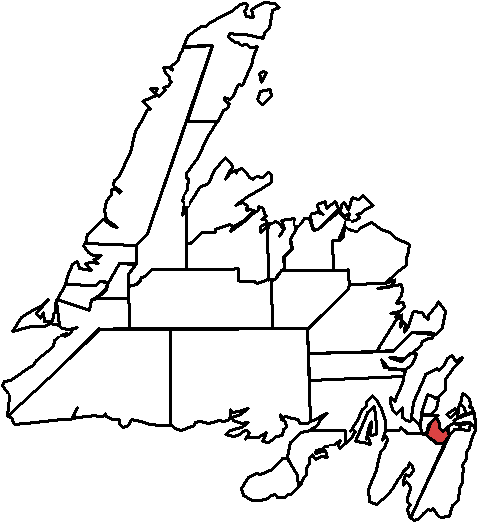 Maps based on images by Earl Warren, from the 2007 elections